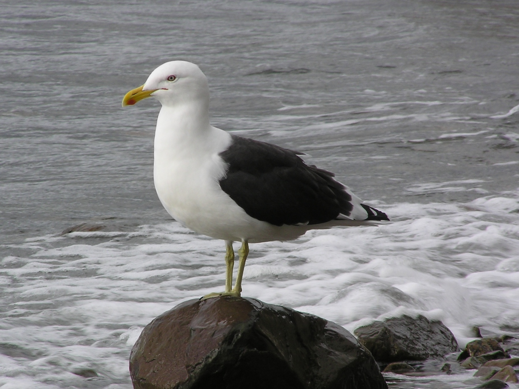 Black backed gull in Wellington Harbour, Wellington, New Zealand.